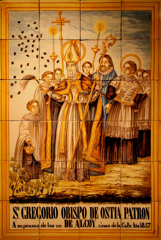 Ceramic pannel (azulejo) from Valencia, 1854, with Saint Gregory of Ostia